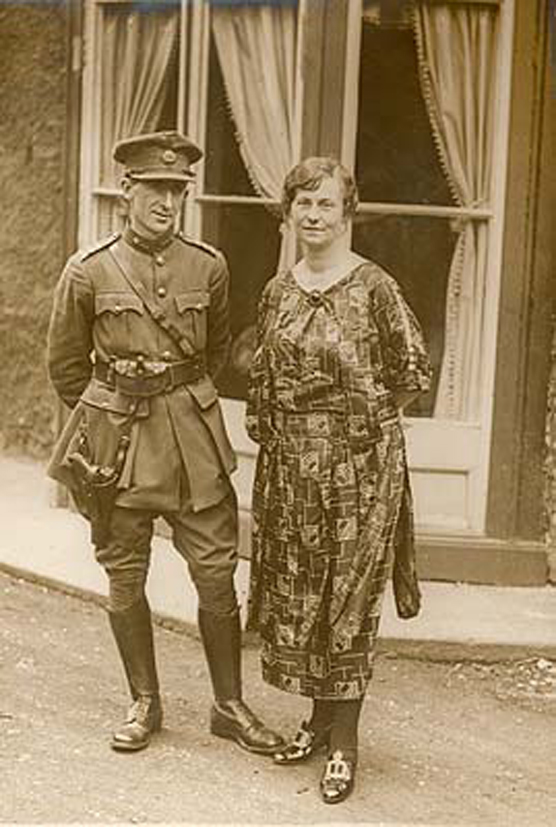 This is Richard (Risteárd) Mulcahy and his wife Josephine (or Min). Following the death of Michael Collins on 22 August 1922, Mulcahy was catapulted into the role of National Army Commander-in-Chief. This photo was probably taken at Lissenfield House beside Portobello Barracks. The family moved here for security reasons. Date: 15 September 1922 NLI Ref.: HOG66